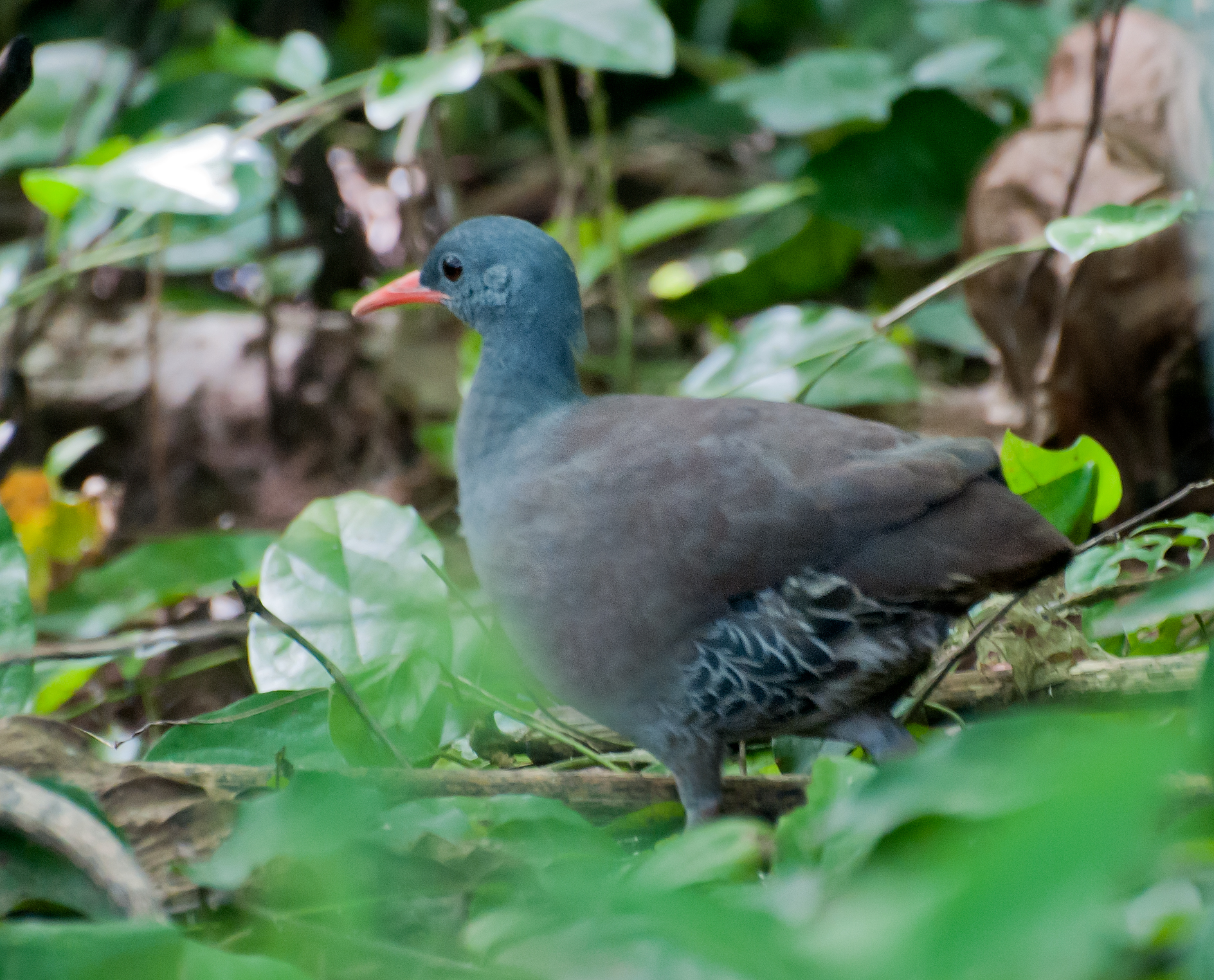 A Tataupa Tinamou in Piraju, São Paulo, Brazil.